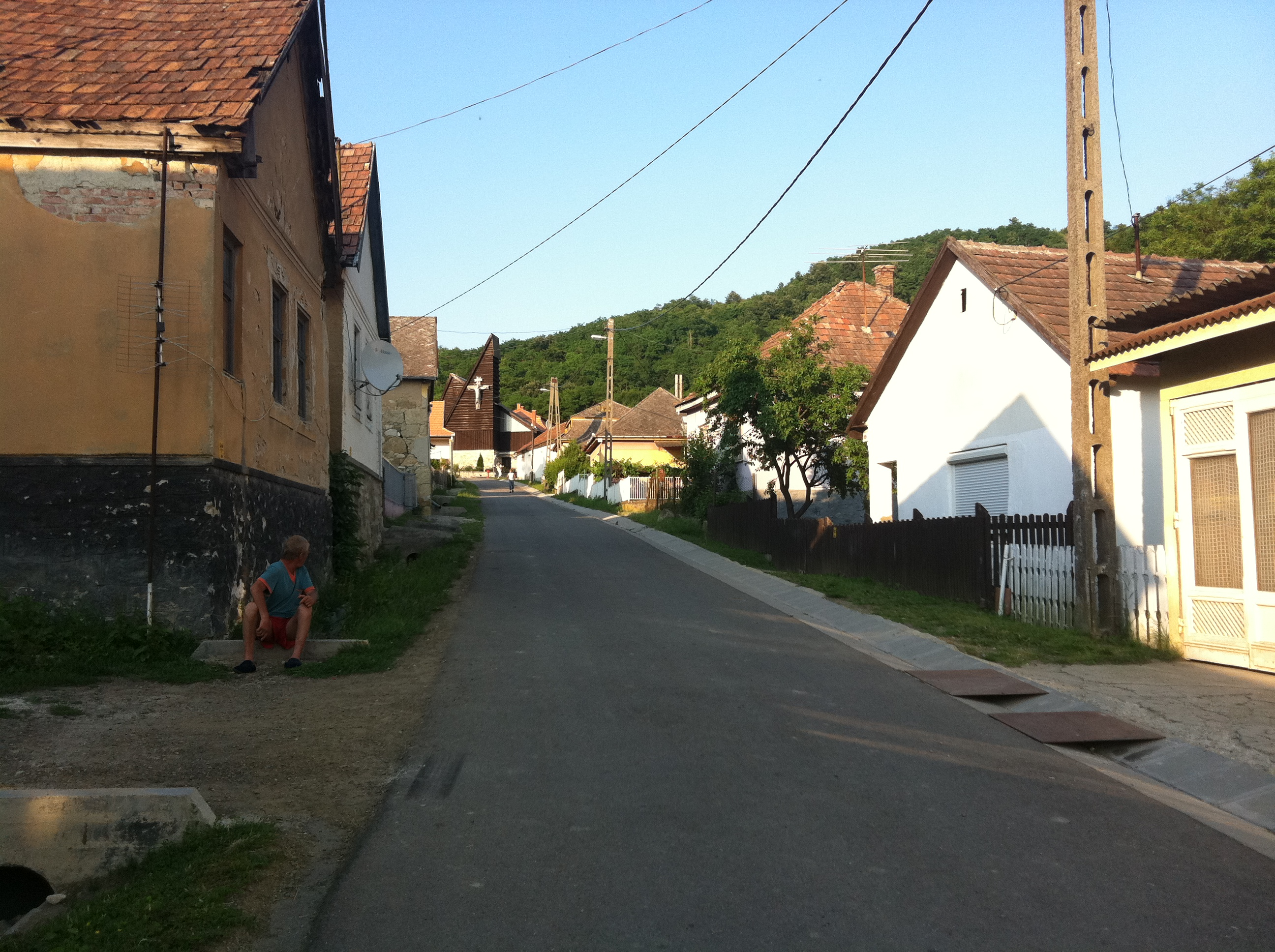 Márkháza, Hungary. View of the Rákóczi Street with the "Christ the King" Roman Catholic church in the background.